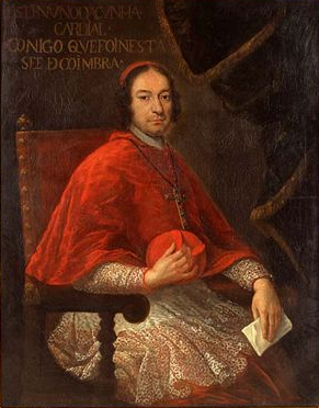 D. Nuno da Cunha e Ataíde (1664-1750), a Roman Catholic cardinal from Portugal.